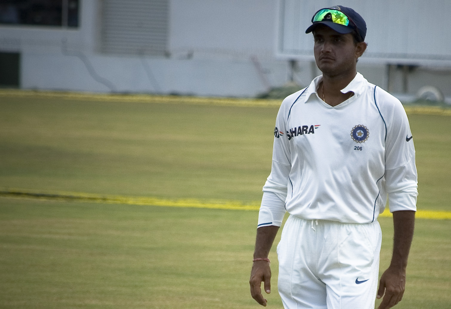 Sourav Ganguly